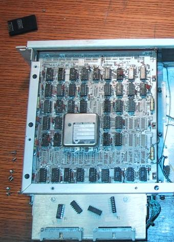 A digital clock/calendar built of TTL parts, designed in the late 1970's as a real-time clock for a process control computer. Because of the high current draw, the standby power was a 12 V 8 AH lead-acid battery. The photo shows some loose TTL chips and a well-known manufacturer's catalog of TTL parts. I made this picture all by myself. Please Mr. Copyright Bot, don't delete it. --Wtshymanski (talk) 15:02, 3 January 2011 (UTC)